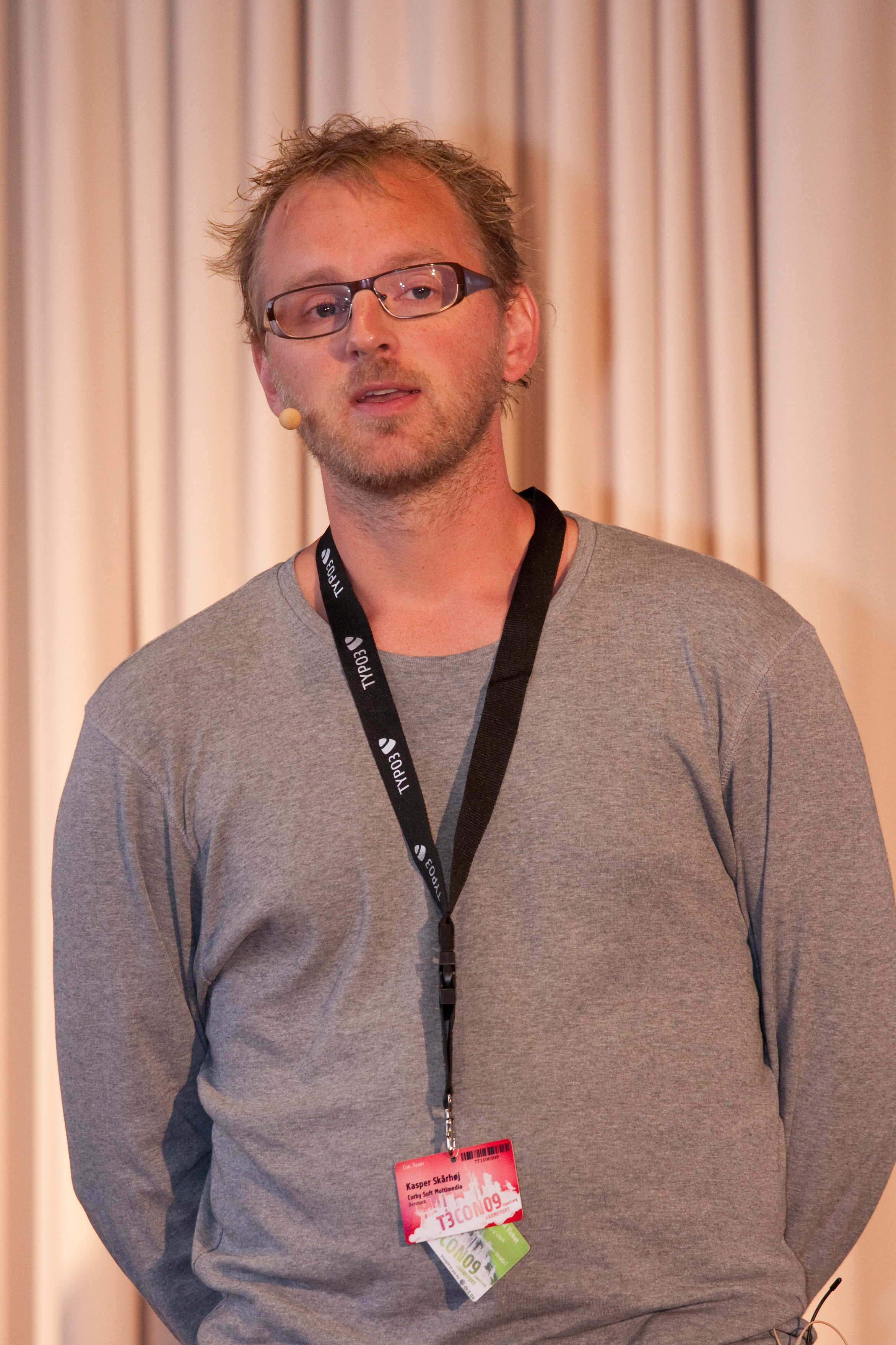 Kasper Skårhøj